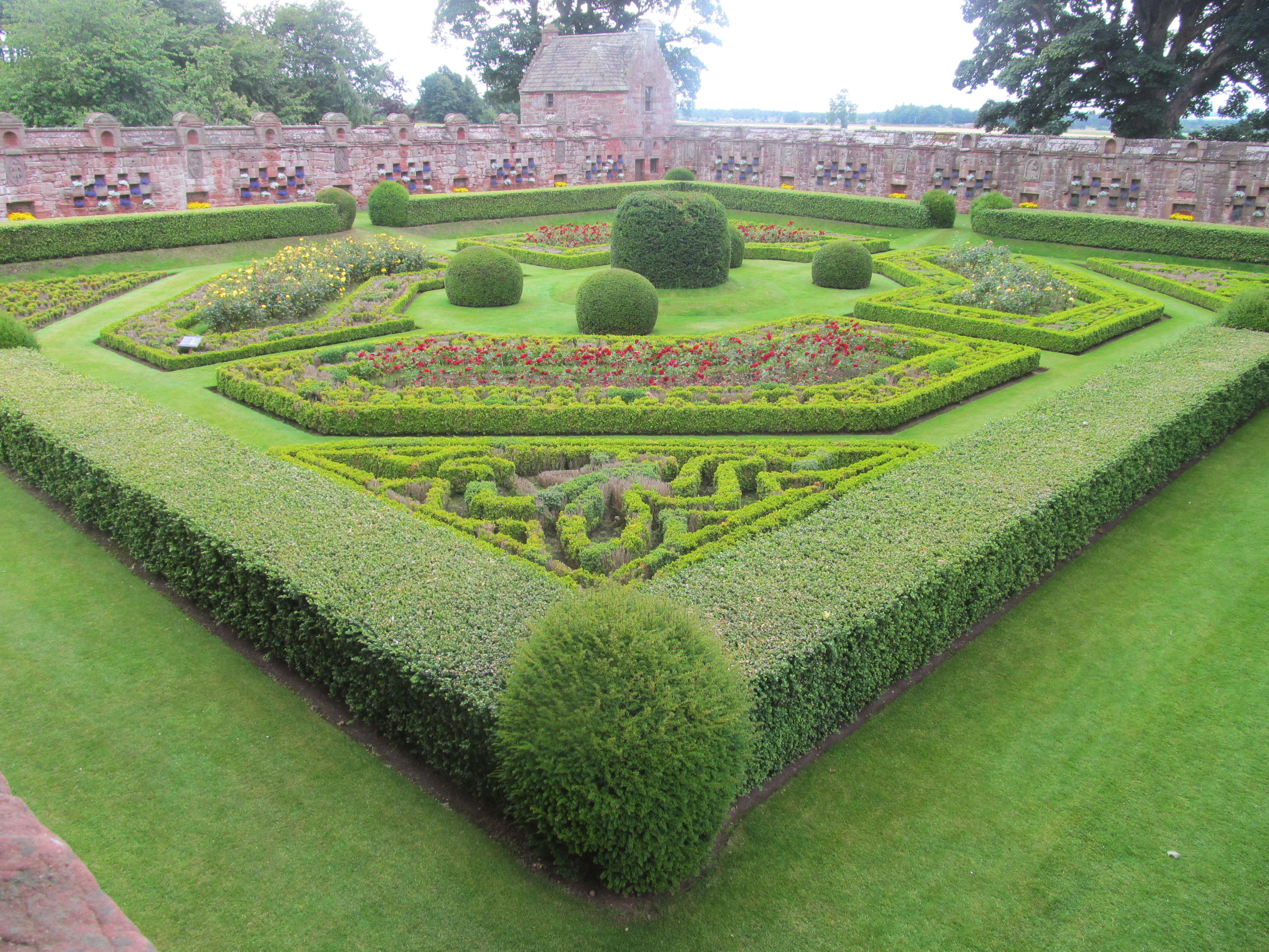 Garden in the Edzell castle